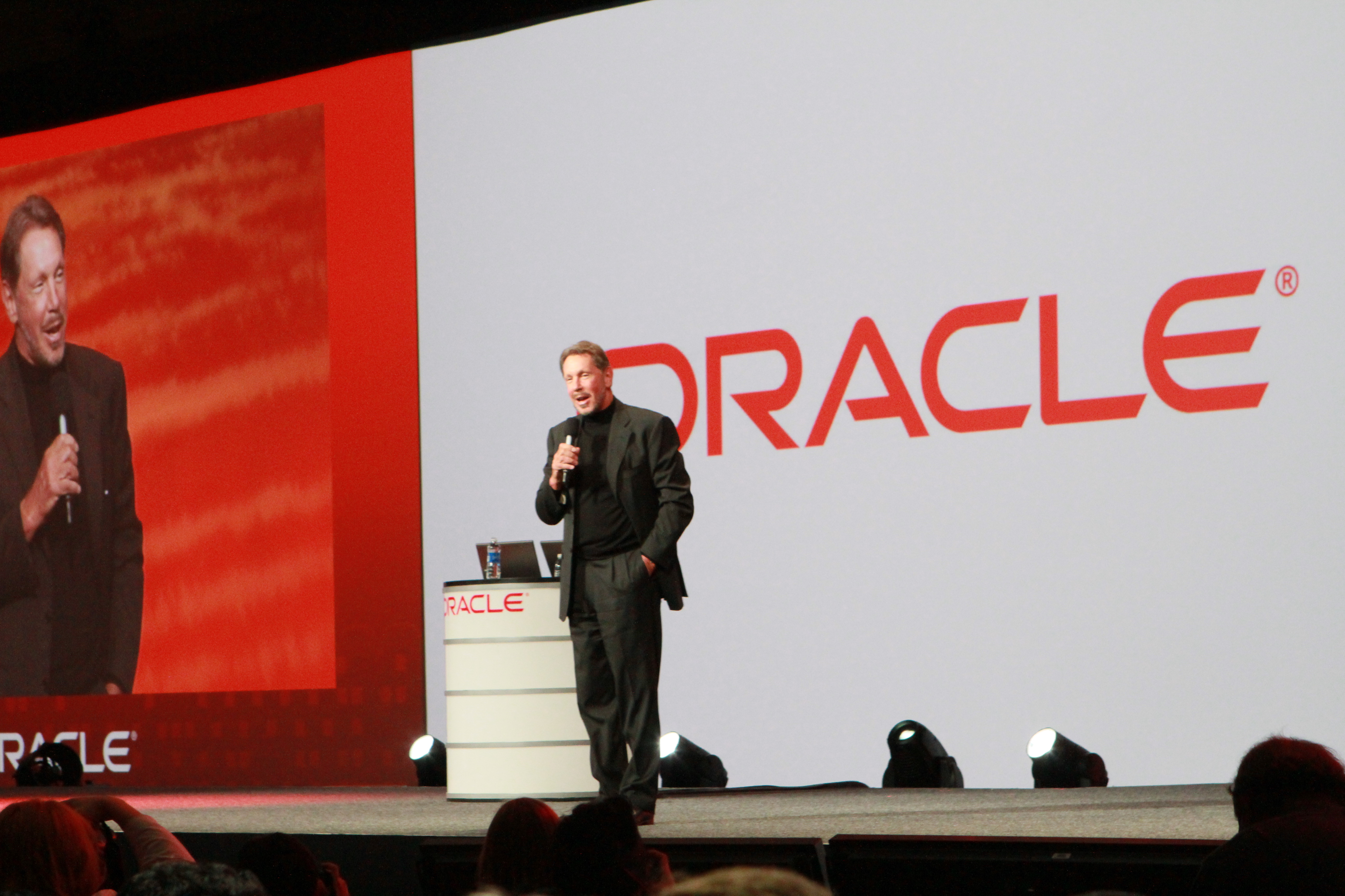 Larry Ellison lecturing during Oracle OpenWorld, San Francisco 2010